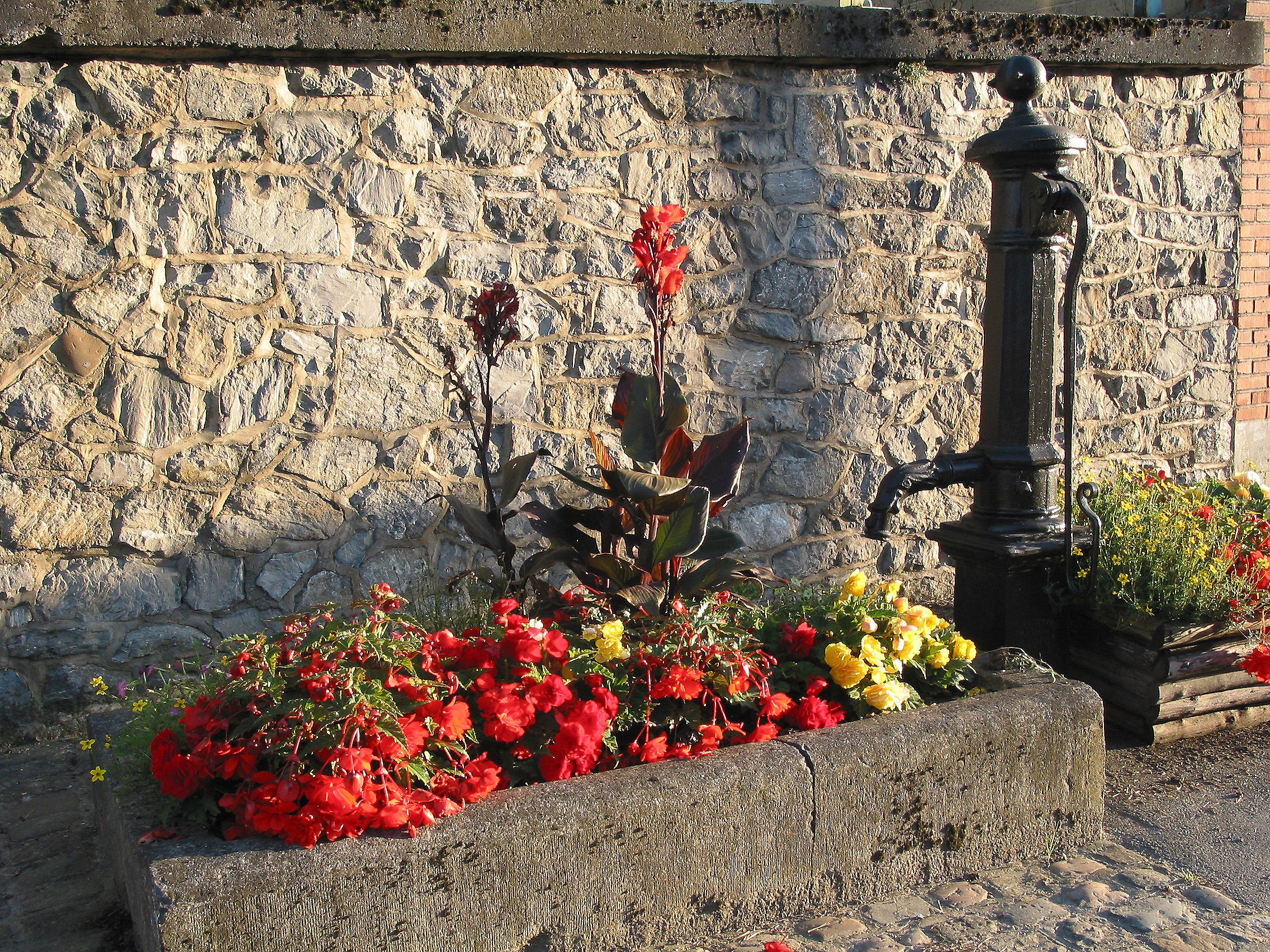 Bure (Belgium): manual waterpump (19th century).